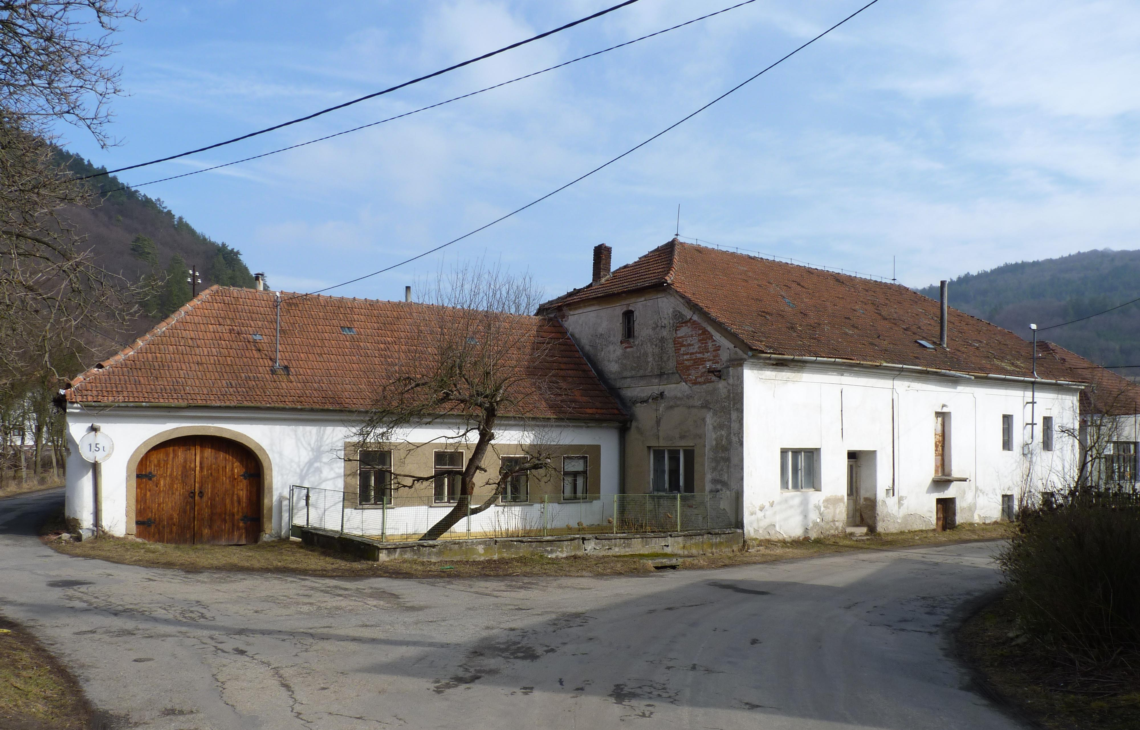 Borač. Brno-Country District, South Moravian Region, Czech Republic